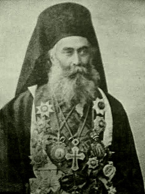 Damian, patriarch of Jerusalem and all Palestine